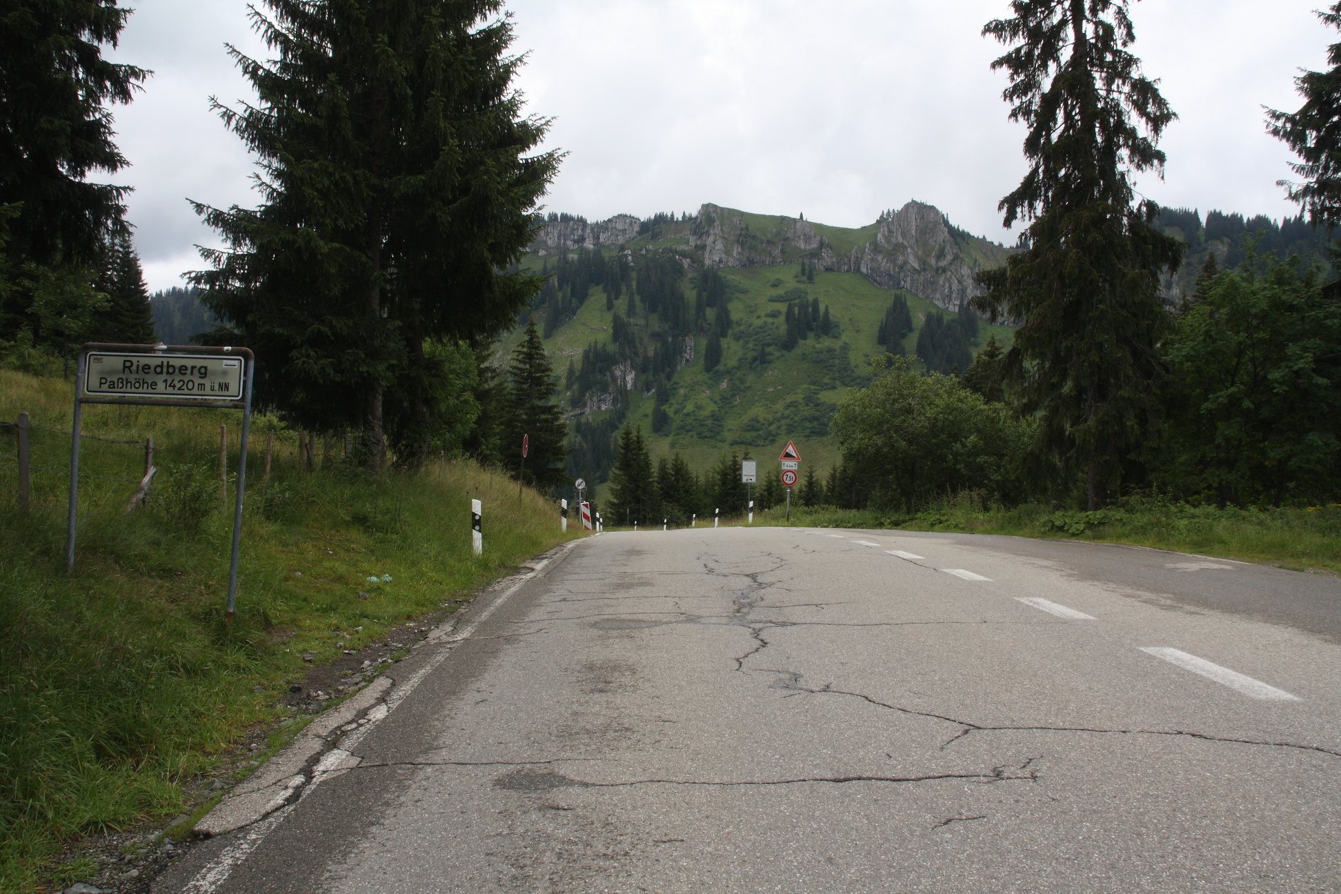 Riedbergpass, top of the pass, view to the Besler group, tablet with wrong altitude declaration (correct altitude: 1407 metres above sea level)